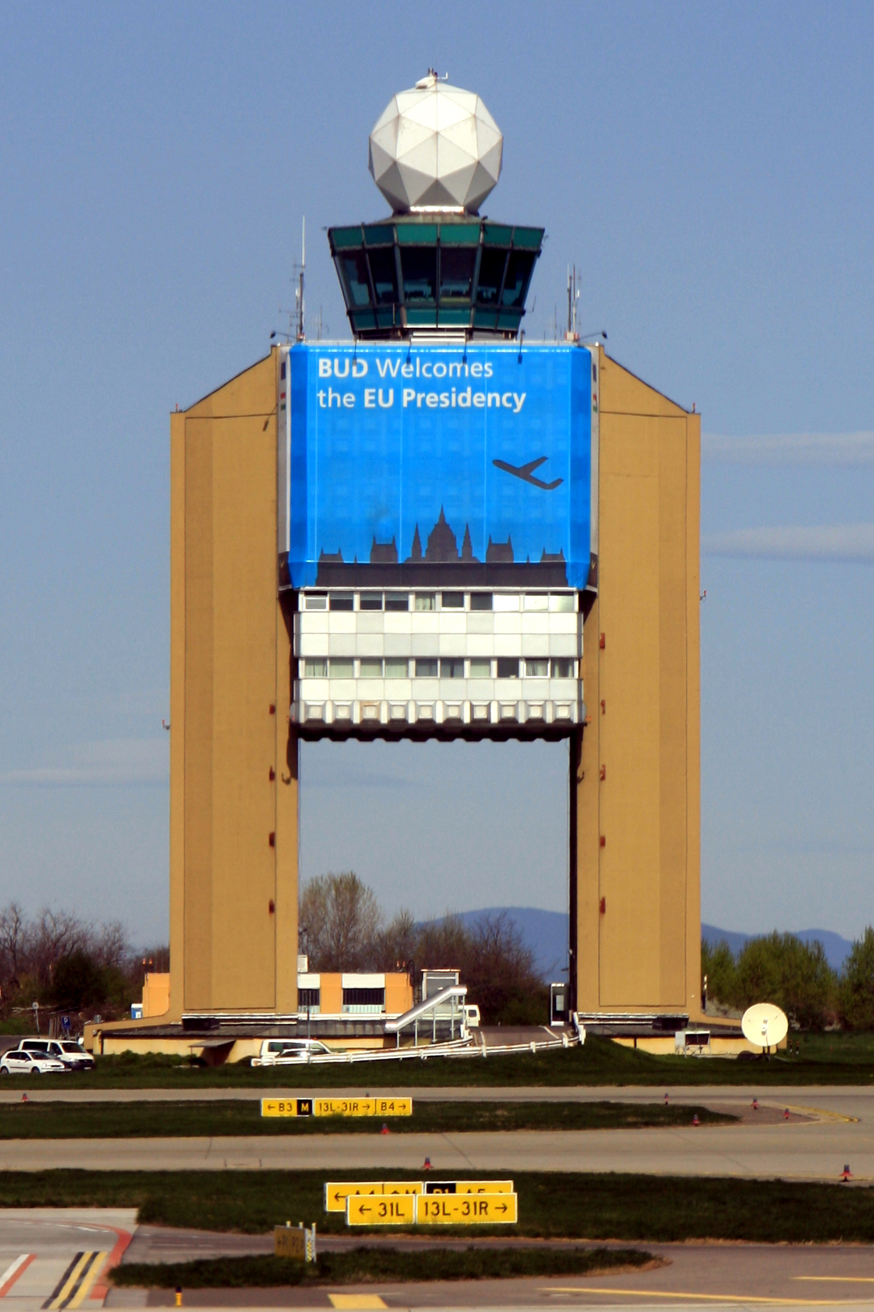 The Tower of Budapest Ferenc Liszt International Airport